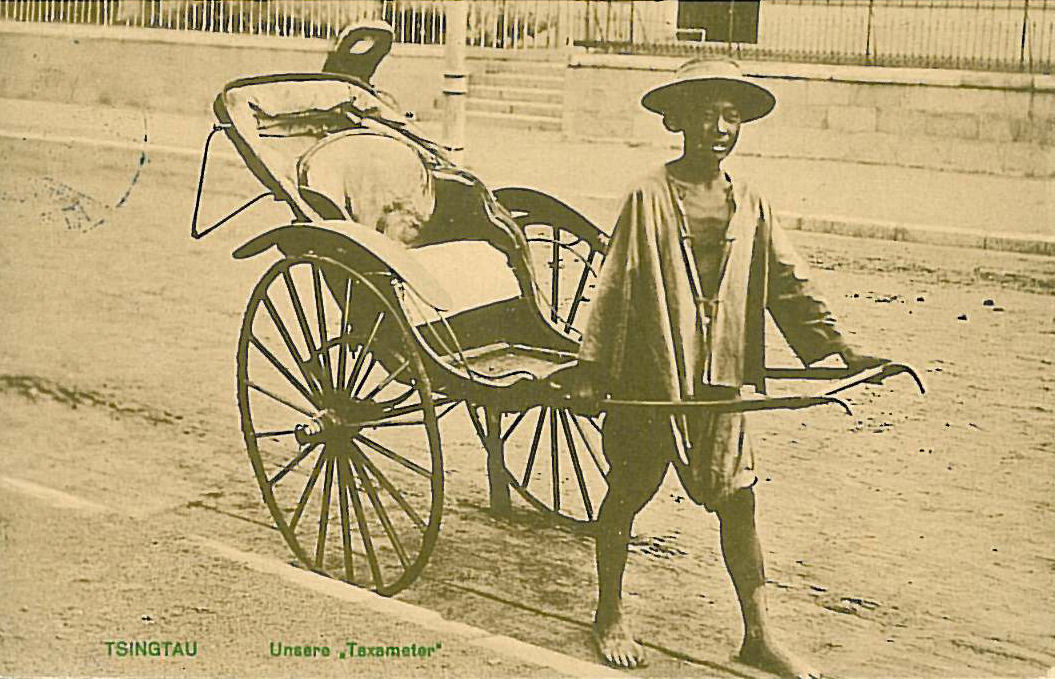 historical view of Qingdao